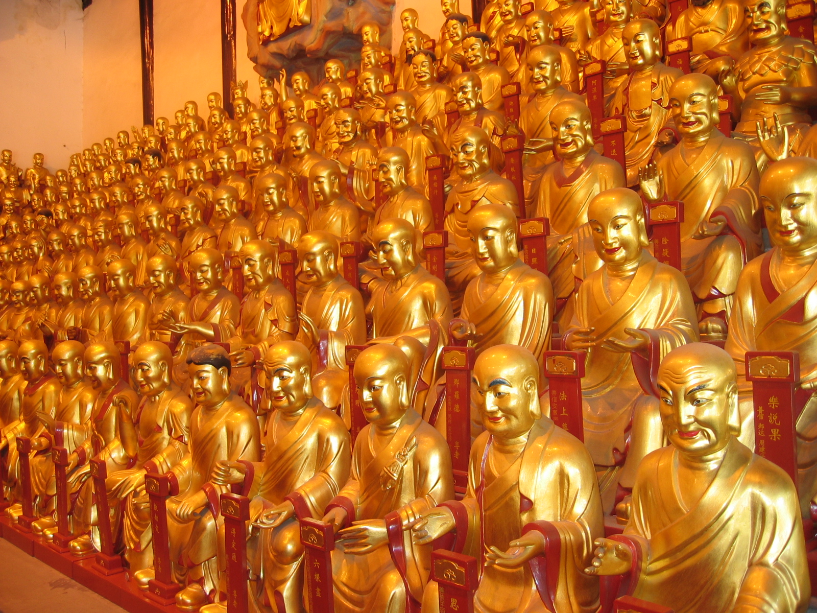 Statues of the 500 Lohan in the Longhua Temple in Shanghai, P.R. China (July 27th, en:2004), photo author: Rolf Müller, licensed to the public under the GNU Free Documentation License (GFDL).